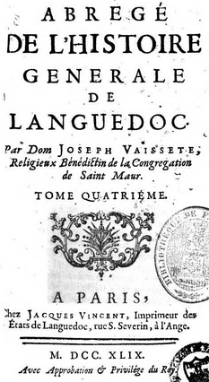 Title page of volume 4 of Joseph Vaissète's Abrégé de l'histoire générale de Languedoc